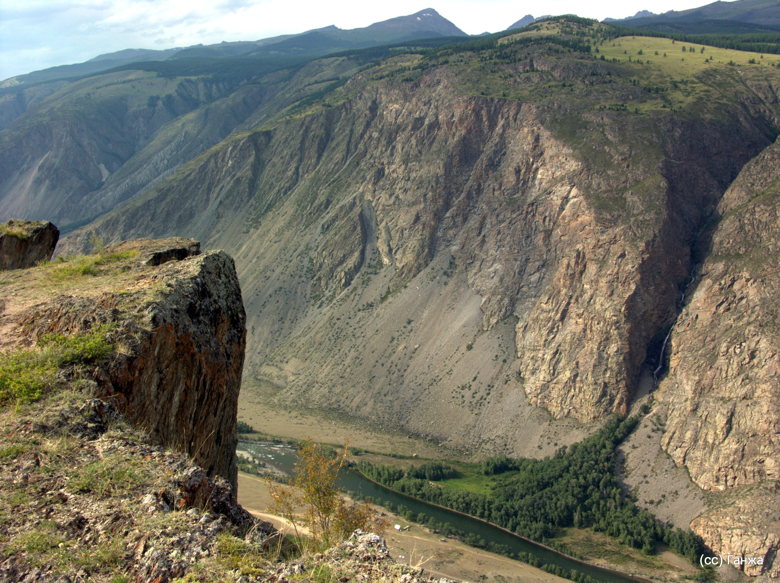 Valley of Chulyshman river.